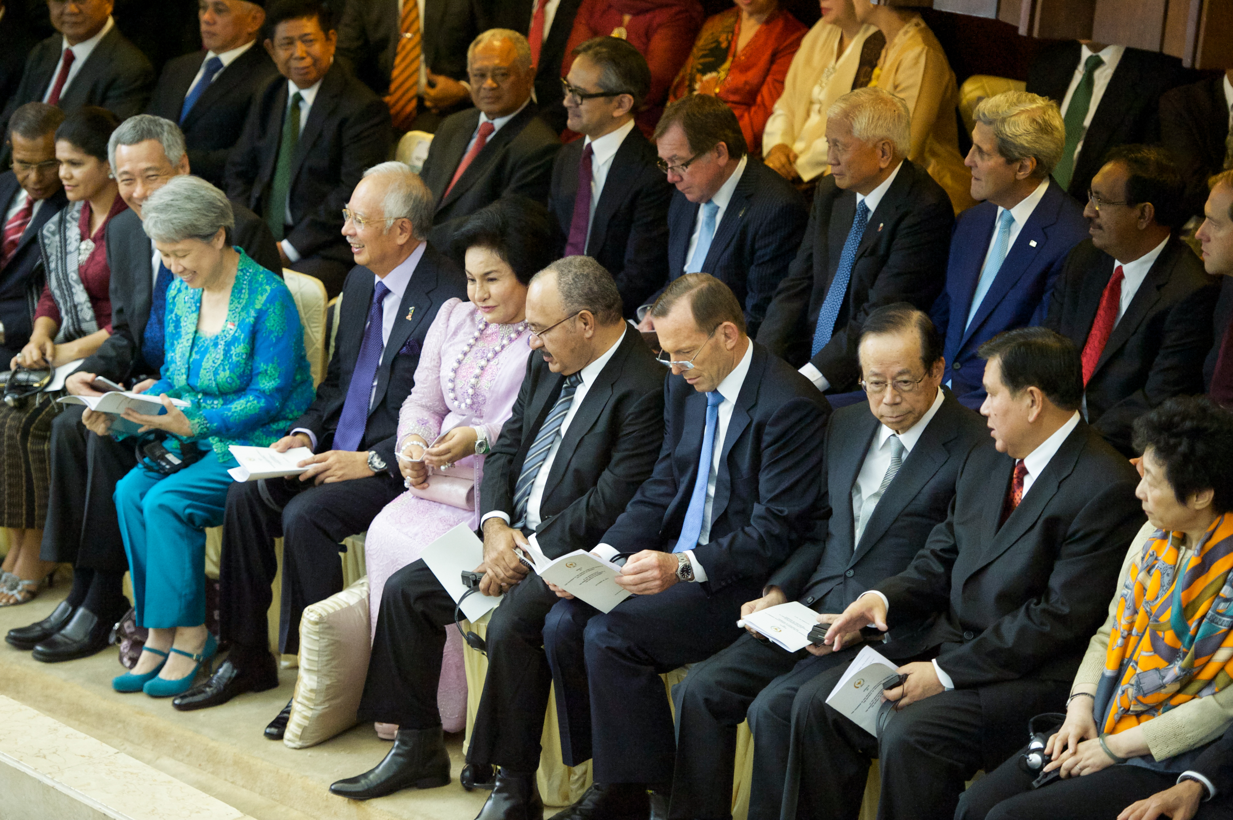 State guests at Inauguration of Joko Widodo